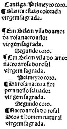 Blanca estais colorada, a song in the Auto da Feira, a morality play by Gil Vicente.